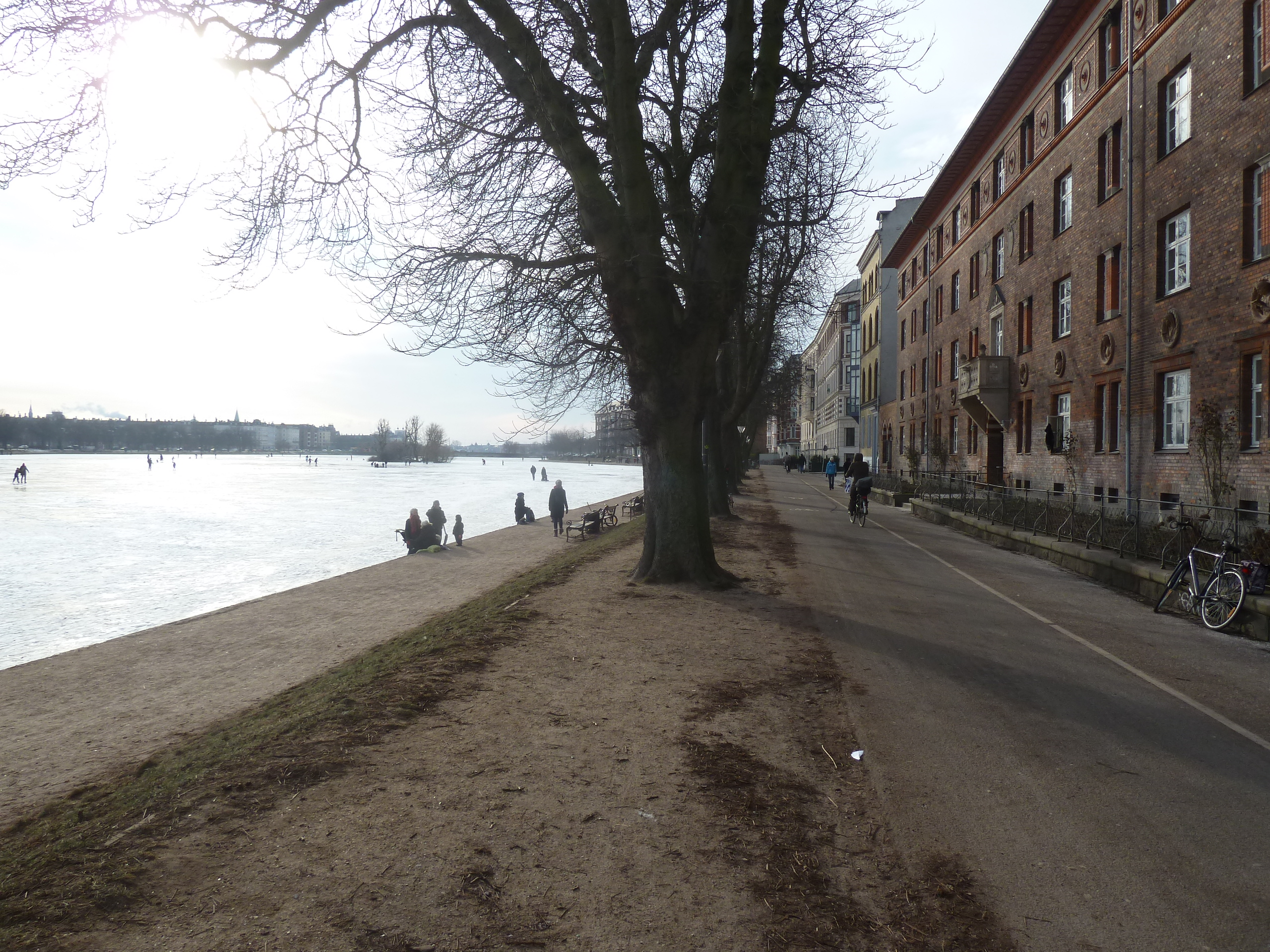 The street Sortedam Dossering in Østerbro in Copenhagen. The lake Sortedams Sø is frozen and people walk on the ice.